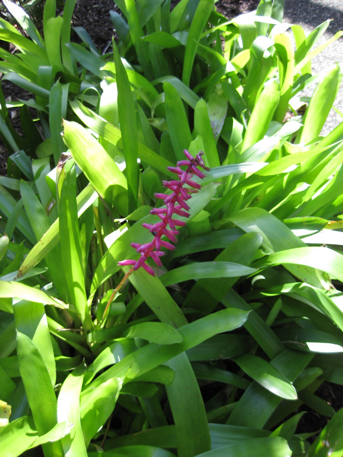 Photographed at the Royal Botanic Gardens Sydney (Australia) in December